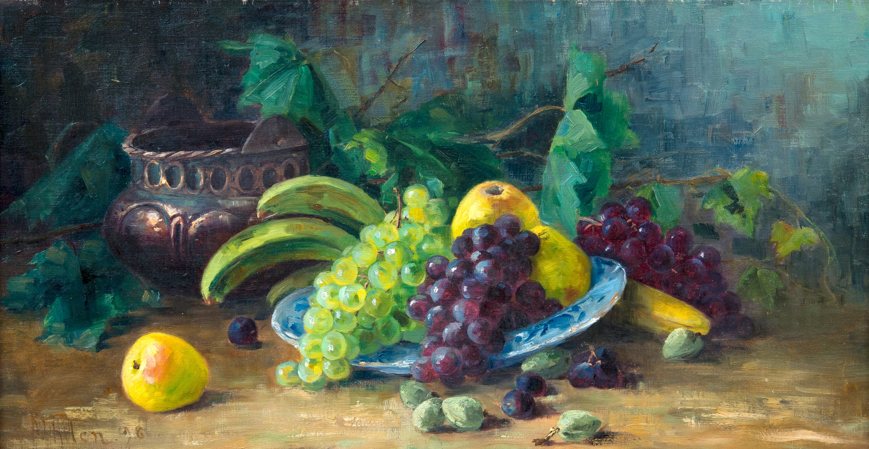 Ada Thilén: Still life with fruits, 1896. Oil on canvas 43x81,5 cm.